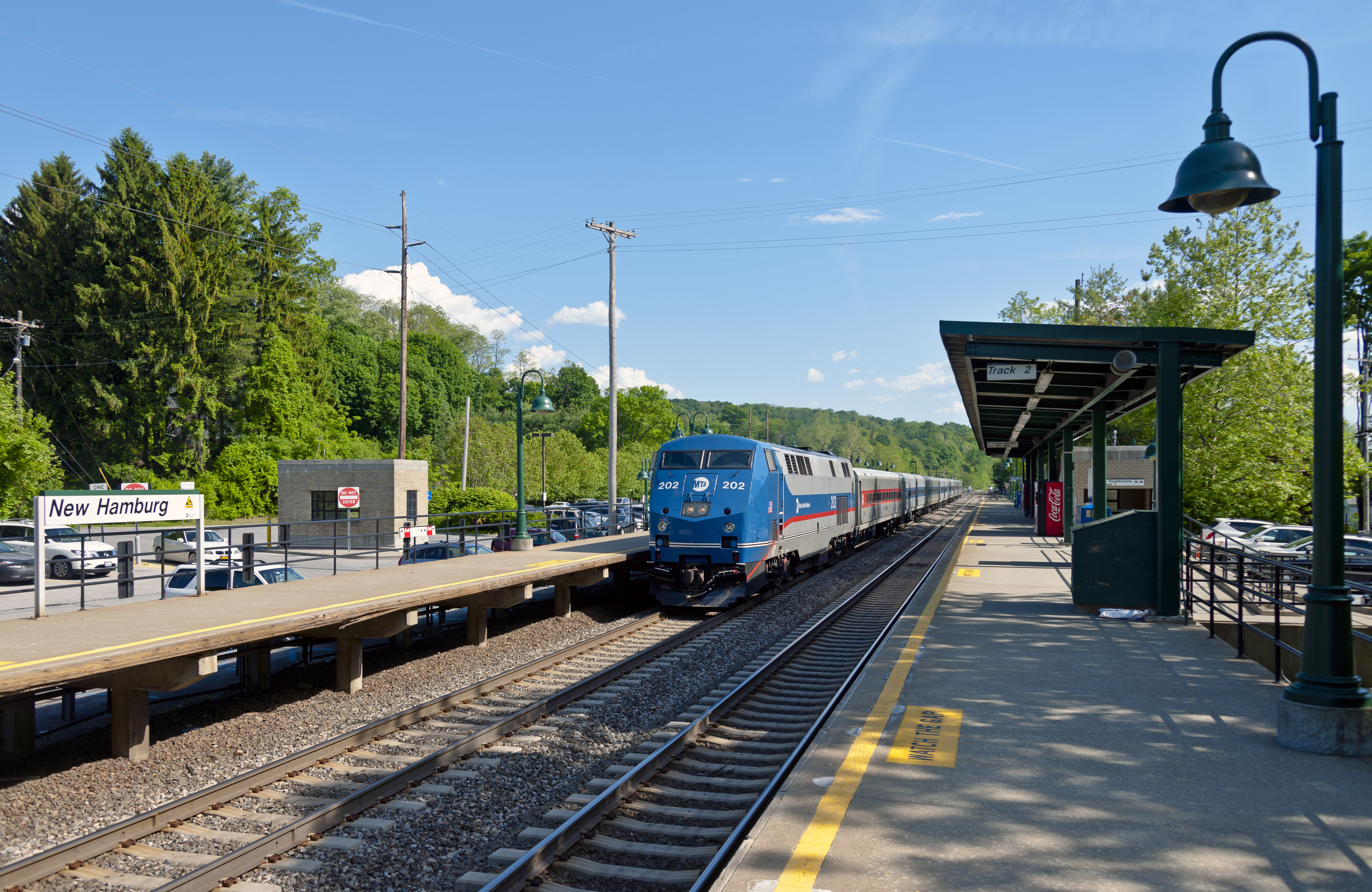 Metro-North train headed for Poughkeepsie stops at New Hamburg on a holiday weekend afternoon.